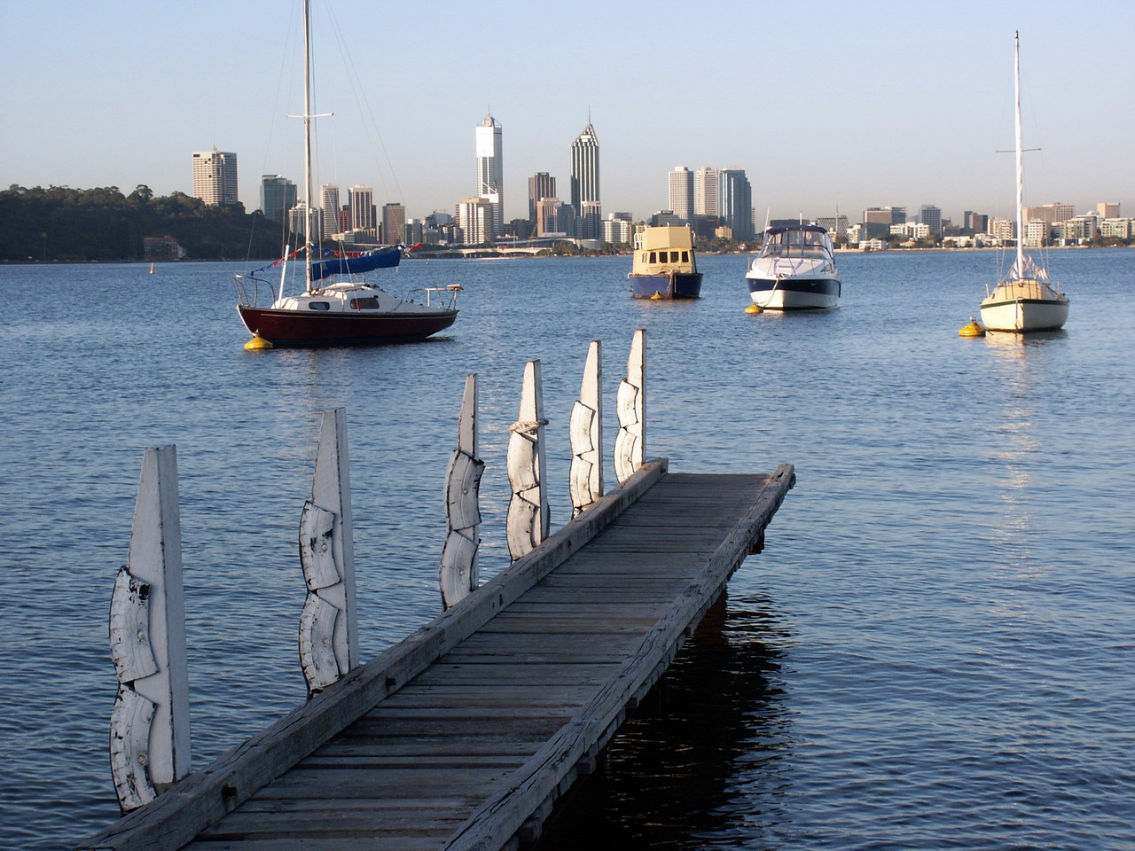 Matlida Bay, the Swan River, and the Perth skyline.